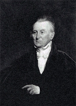 Photo of a Reproduction of a painting by Harding